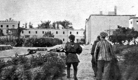 Picture made by Eugeniusz Lokajski and found together with his archives, as such it is in public domain as a Polish historical heritage